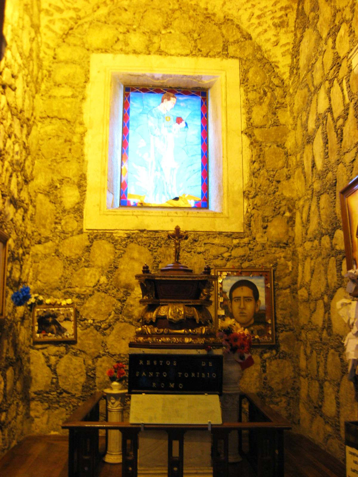 Chapel of Saint Toribio Romo González in the main church of Tequila, Jalisco, Mexico.